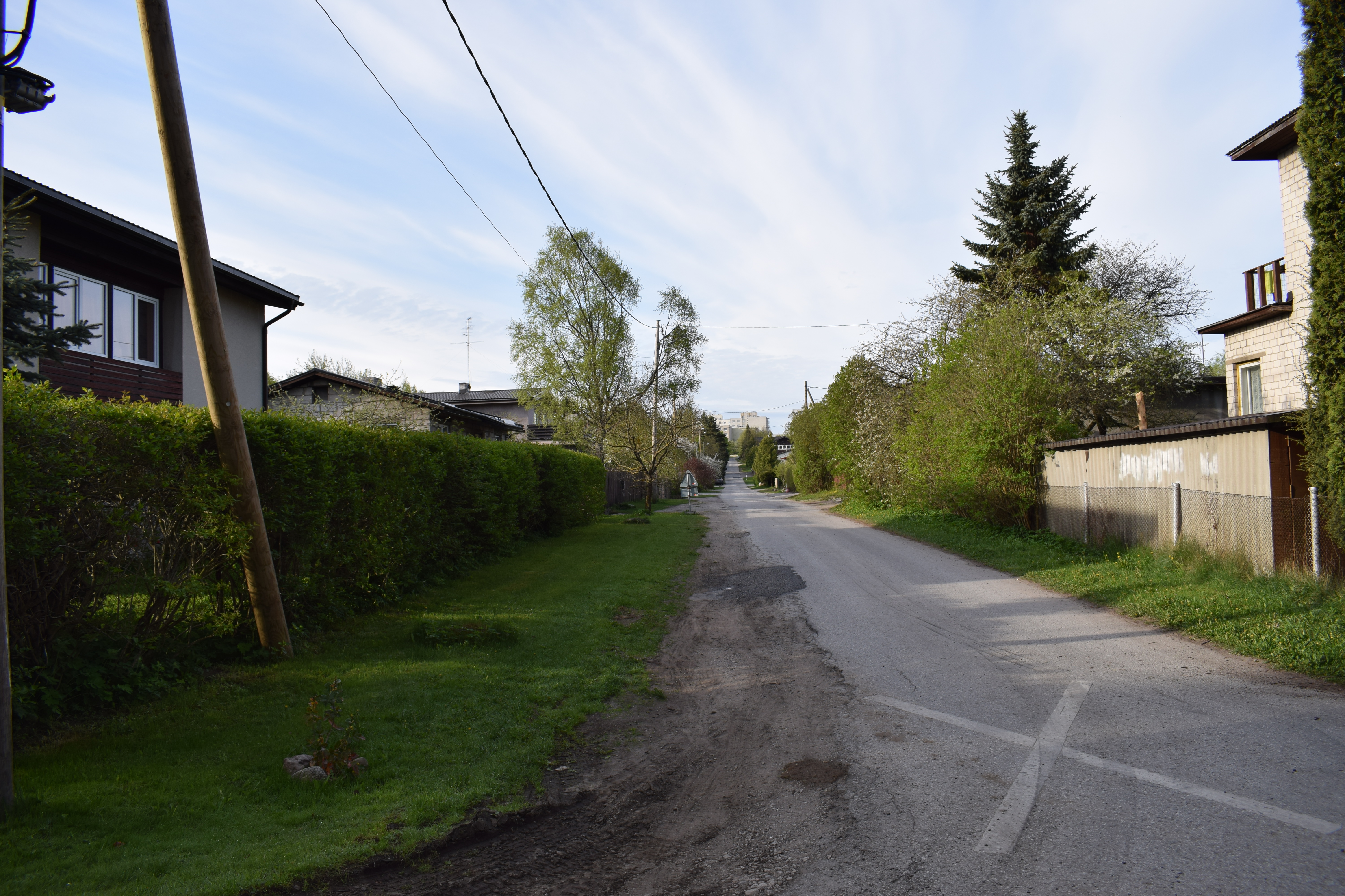 Lõosilma tee